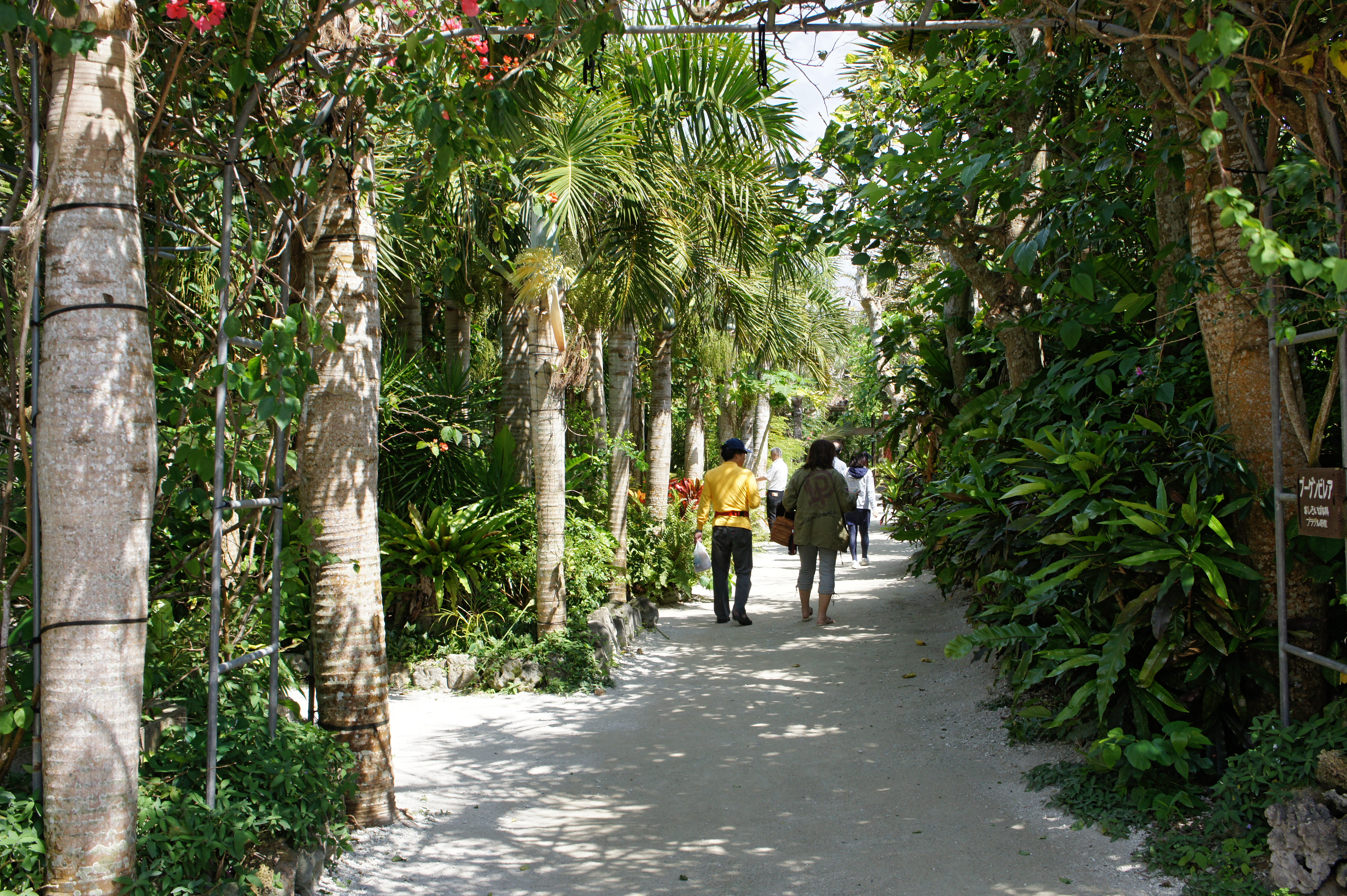 at Subtropical Botanical Garden, Yubu Island in Taketomi Town, Okinawa Prefecture, Japan.